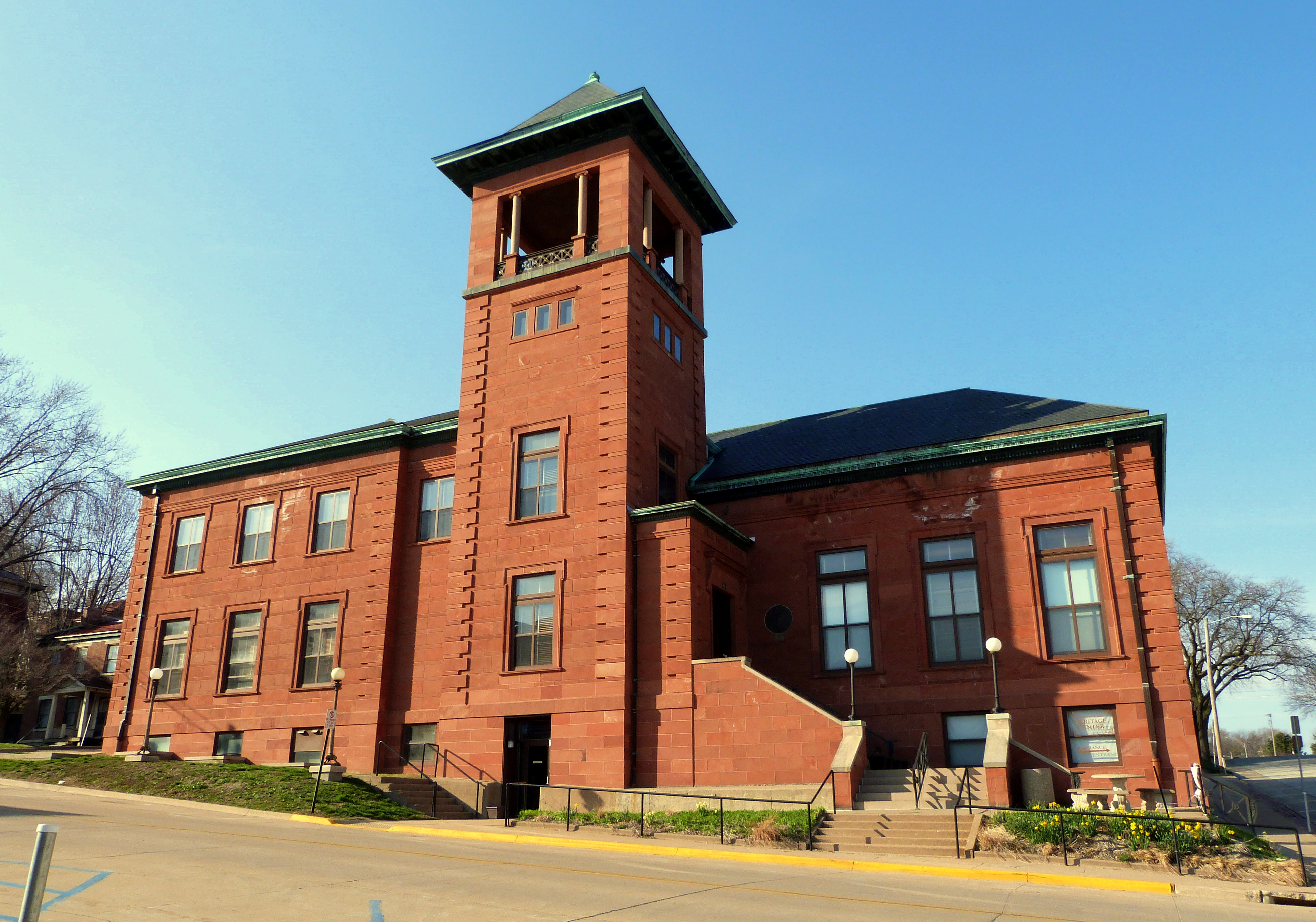 The historic Burlington Public Library (built 1896-1898), located at 501 North 4th Street in Burlington, Iowa, United States, is listed on the US National Register of Historic Places. It is additionally listed as a contributing resource in the National Register-listed Heritage Hill Historic District.